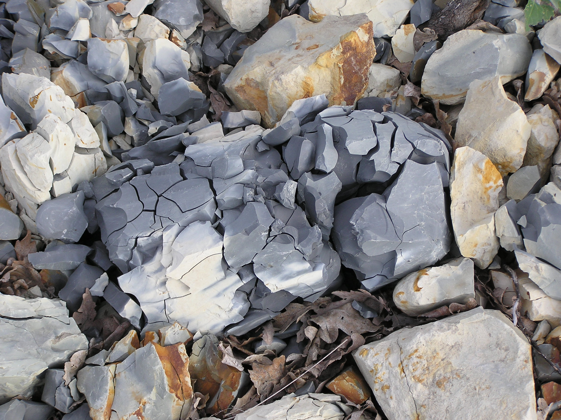 Opoka (gaize) – a hard porous silica-based sedimentary rock from the Upper Cretaceous. These rocks were recently exposed in roadworks. Vicinity of Saratov city, Russia.